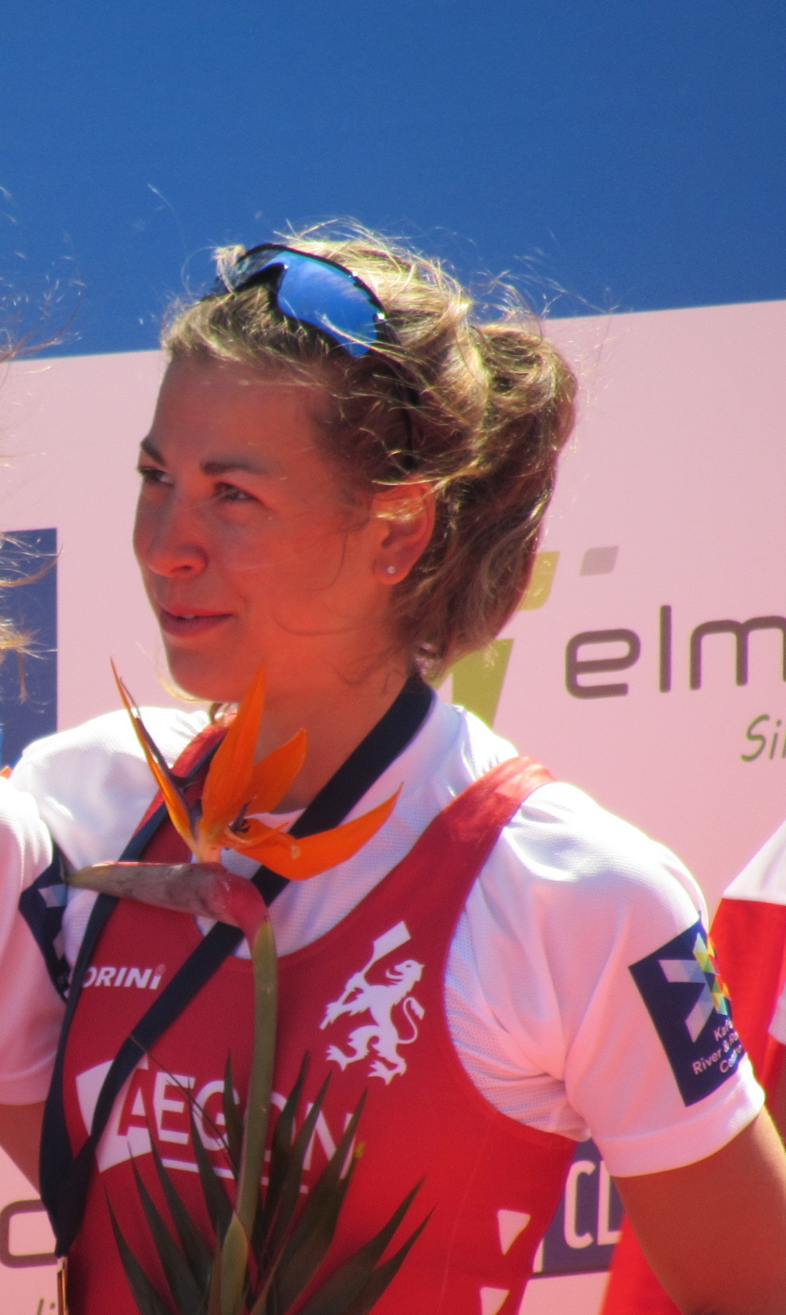 Ilse Paulis (right) and Maaike Head (left) at the 2016 European Rowing Championships in Brandenburg an der Havel, Germany